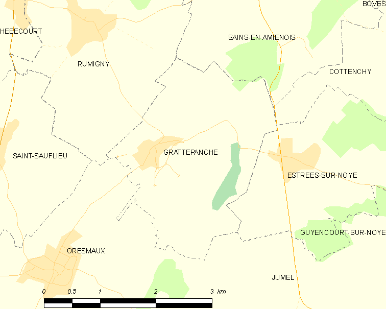 Map of French municipality Grattepanche